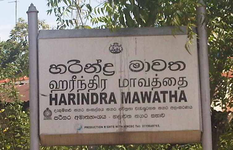 Harindra Mawatha, Chilaw, Sri Lanka - named after the late Harindra Corea,member of parliament for Chilaw and Deputy Foreign Minister of the Government of Sri Lanka.